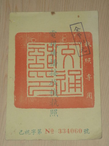 A "television sets license" from Ministry of Transportation and Communications, Republic of China.